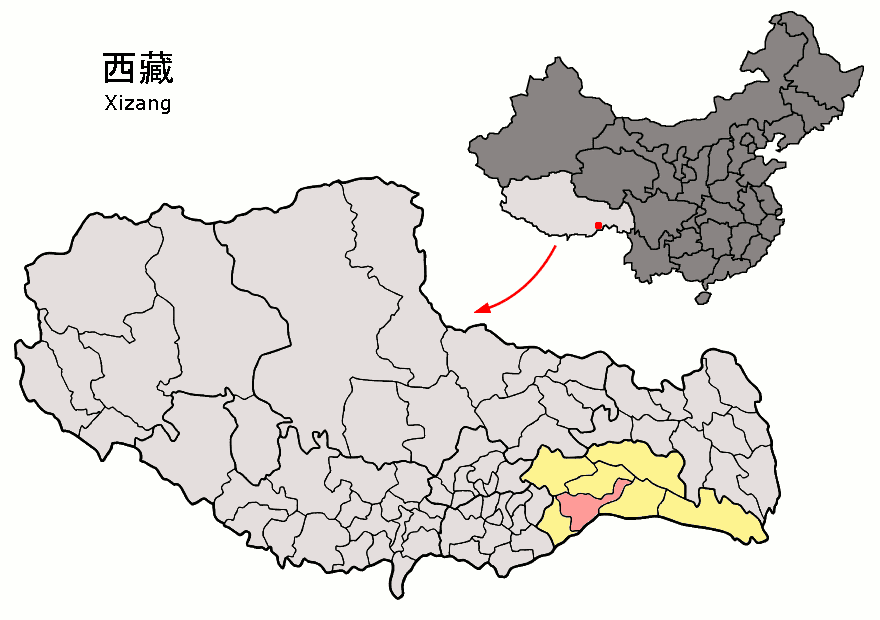 Location of Mainling County (pink) and Nyingchi prefecture (yellow) within Tibet Autonomous Region (Xizang Zizhiqu) of People's Republic of China